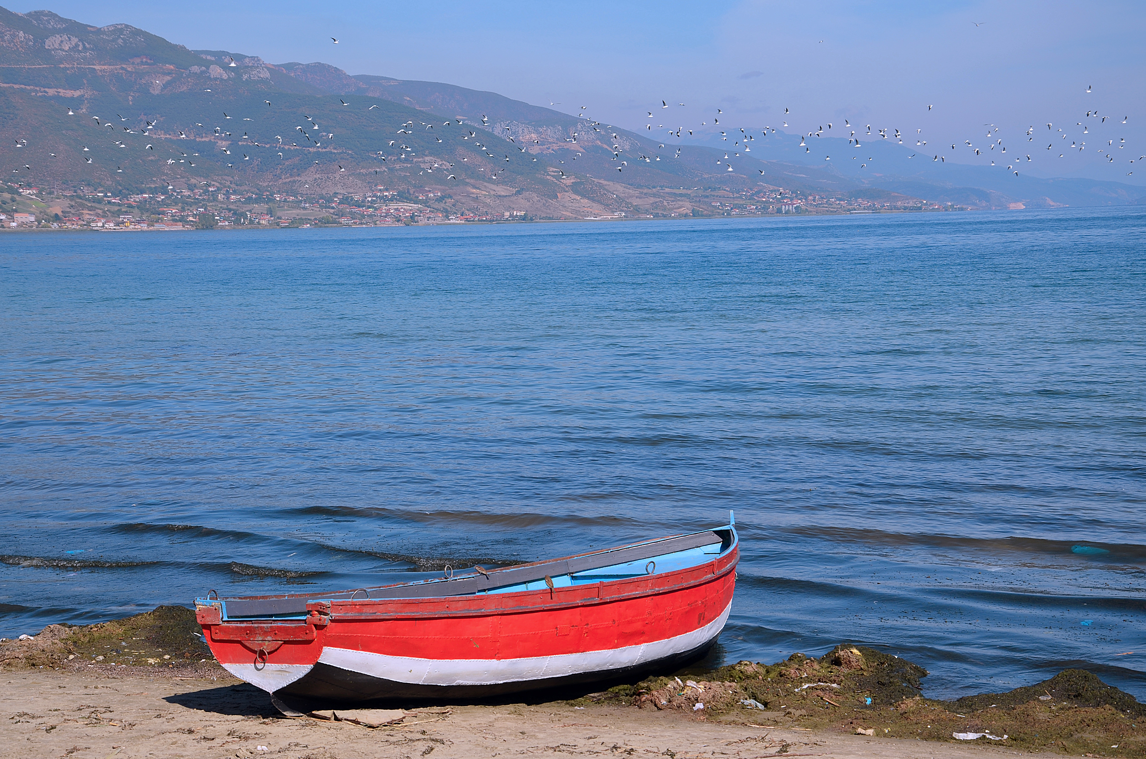 The bech of the Ohrid Lake at Pogradec